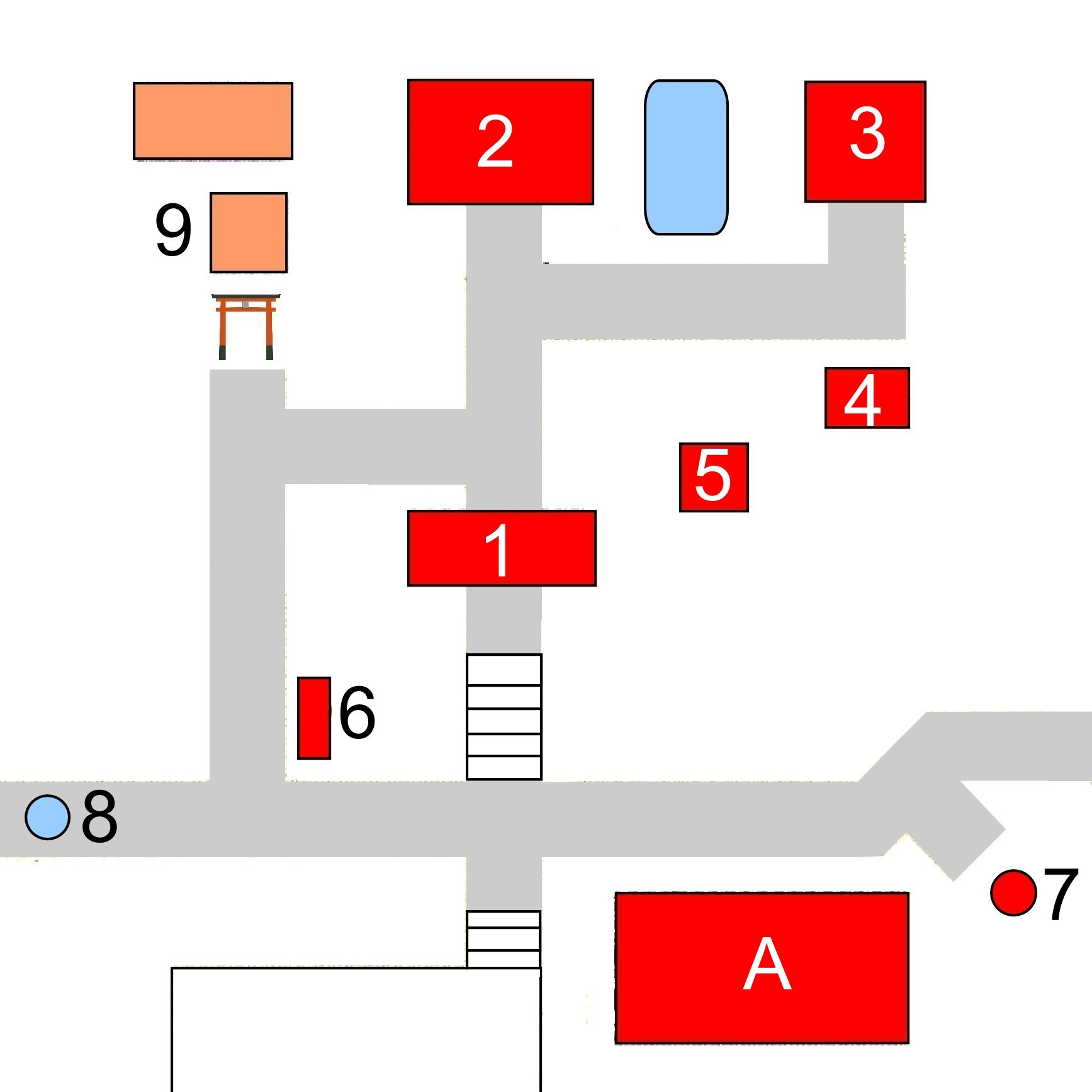 Layout of Meiseki-ji temple at Seiyo (Ehime, Prefecture, Japan)